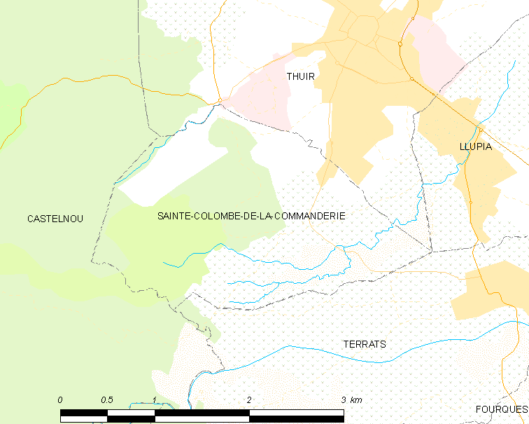 Map of French municipality